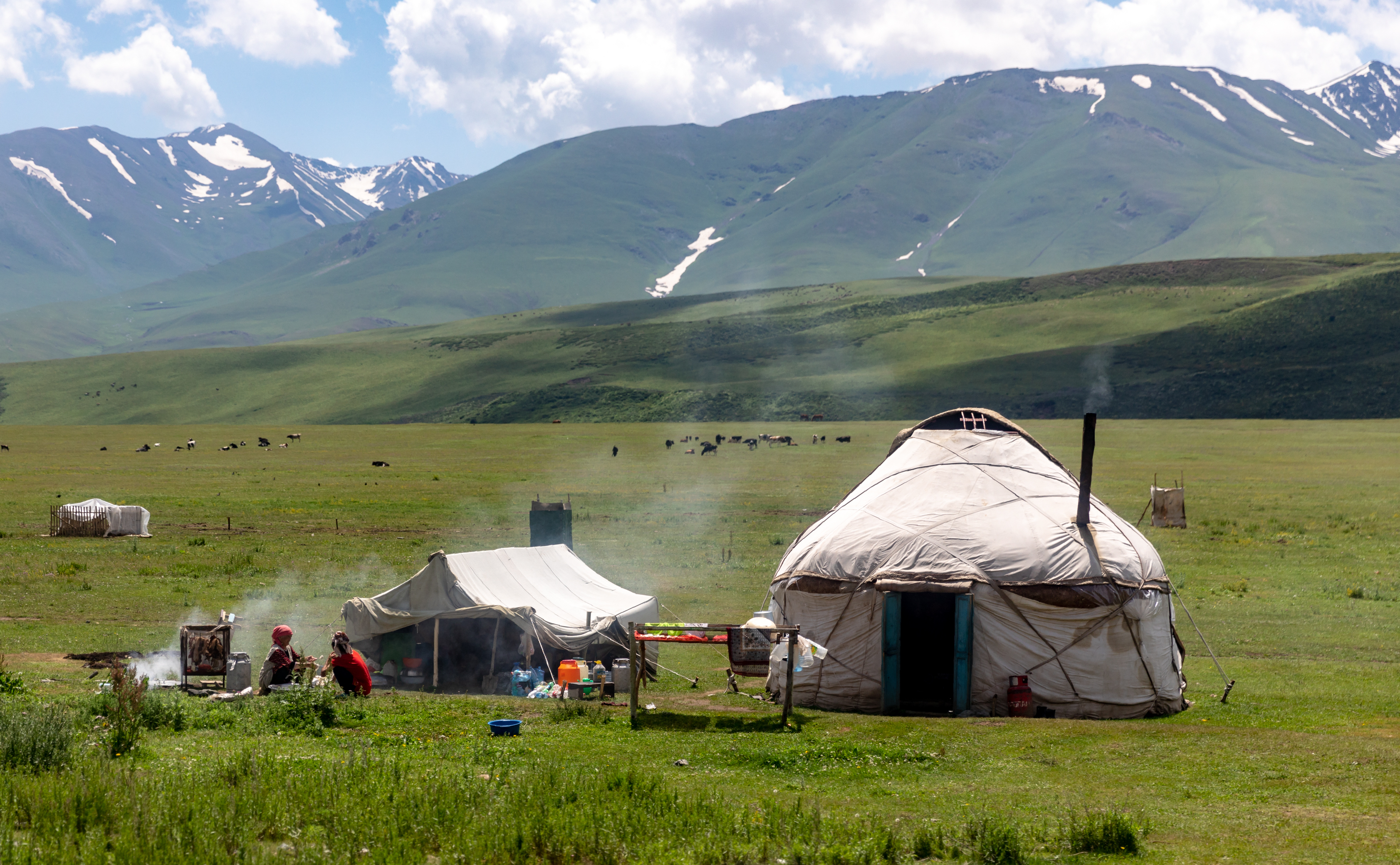 Life in yurts